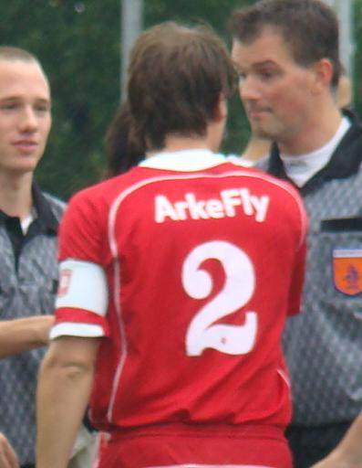 Image of the FC Twente-player Rob Wielaert